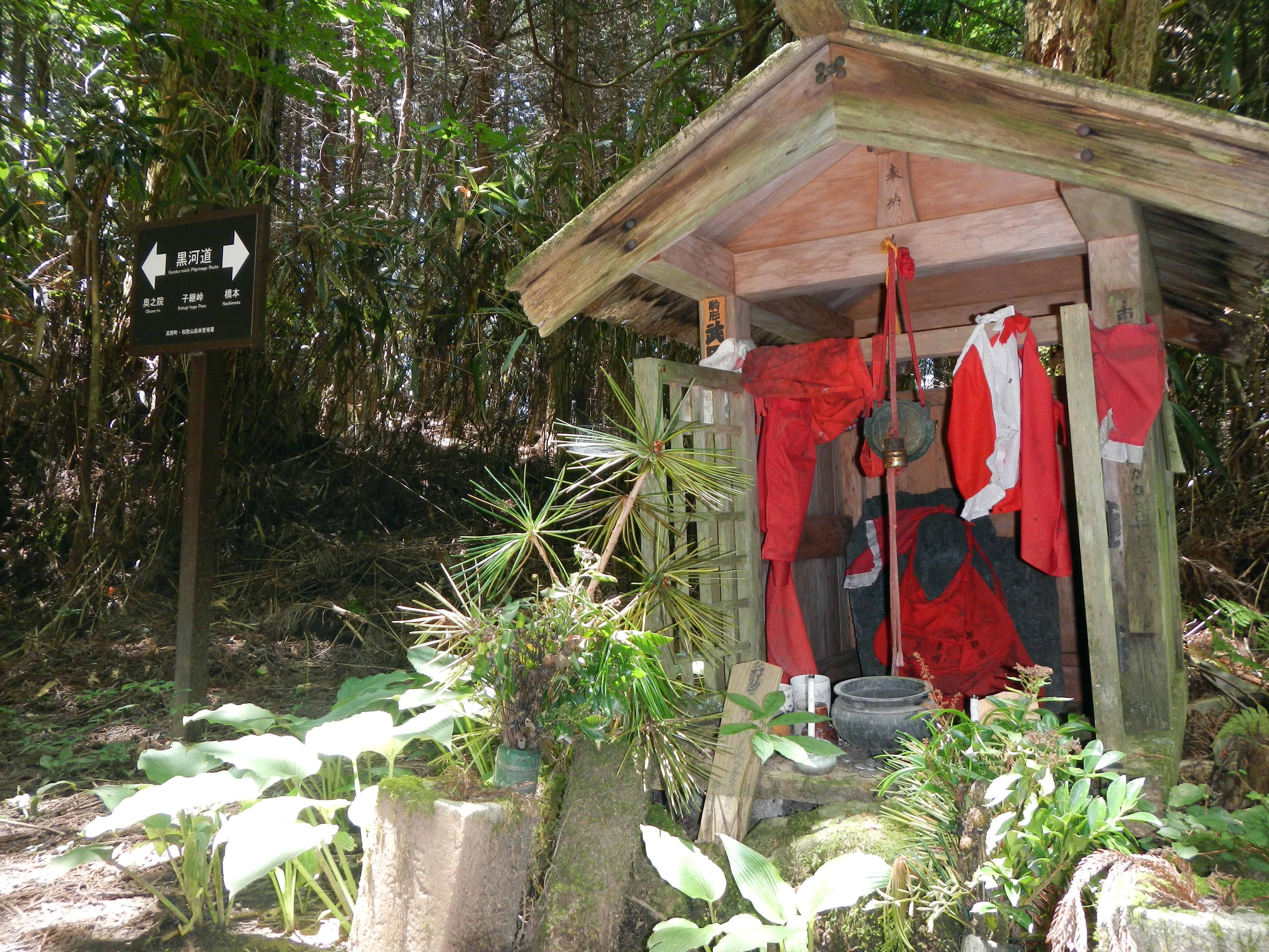 Jizo at the Kotsugi Pass on the Kuroko-michi pilgrimage route in Wakayama Prefecture, Japan